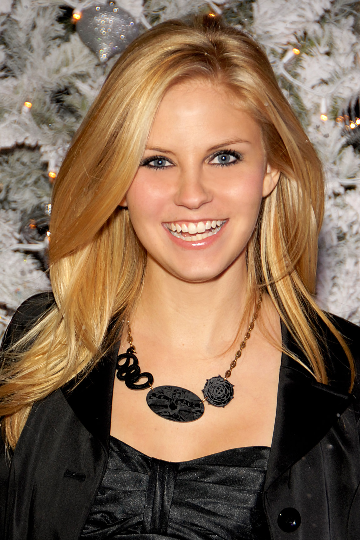 Nikki Griffin attending the Bench Warmer Holiday Party at Empire on Dec. 6, 2009 - Photo by Glenn Francis of